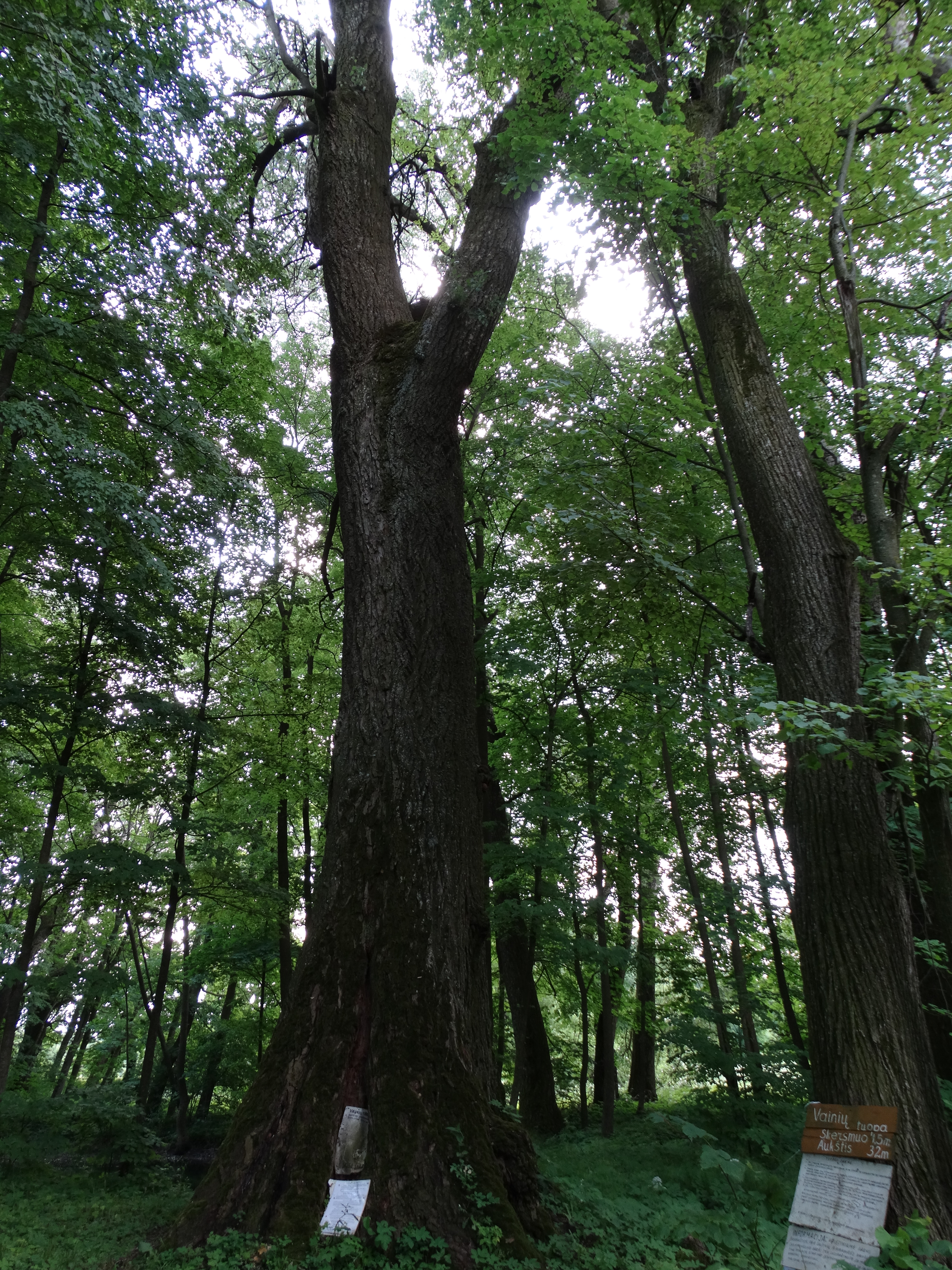 White poplar, Vainiai, Jonava District, Lithuania